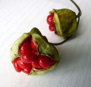 Bomarea edulis, Botanical Garden Basel.